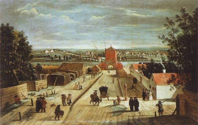 Roter Turm (Red Tower) at the Isar bridge in Munich